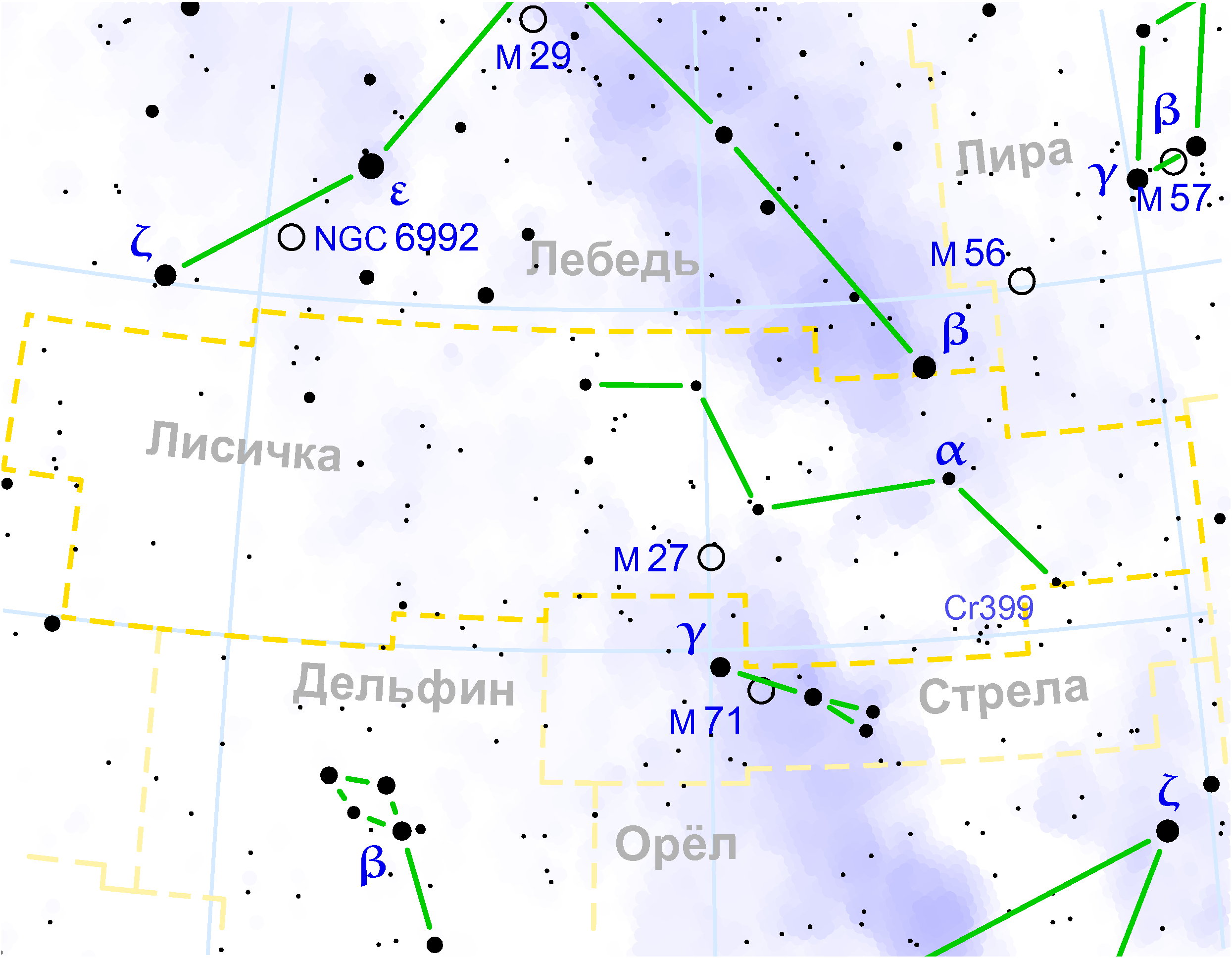 Vulpecula constellation map in Russian